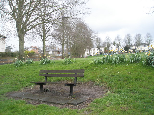 Seat near Oram's Arbour